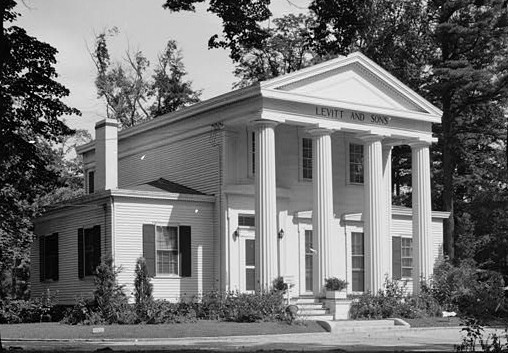 Judge Horatio Gates Onderdonk House, Strathmore Road & Rolling Hill Road, Manhasset (Nassau County, New York) cropped